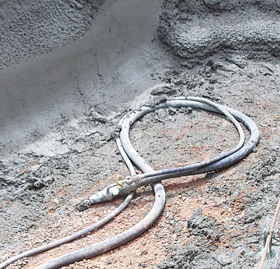 Photograph by Bill Bradley. billbeee 18:11, 6 November 2007 (UTC) Feel free to use it, just credit me as the photographer. You can contact me through my website my website